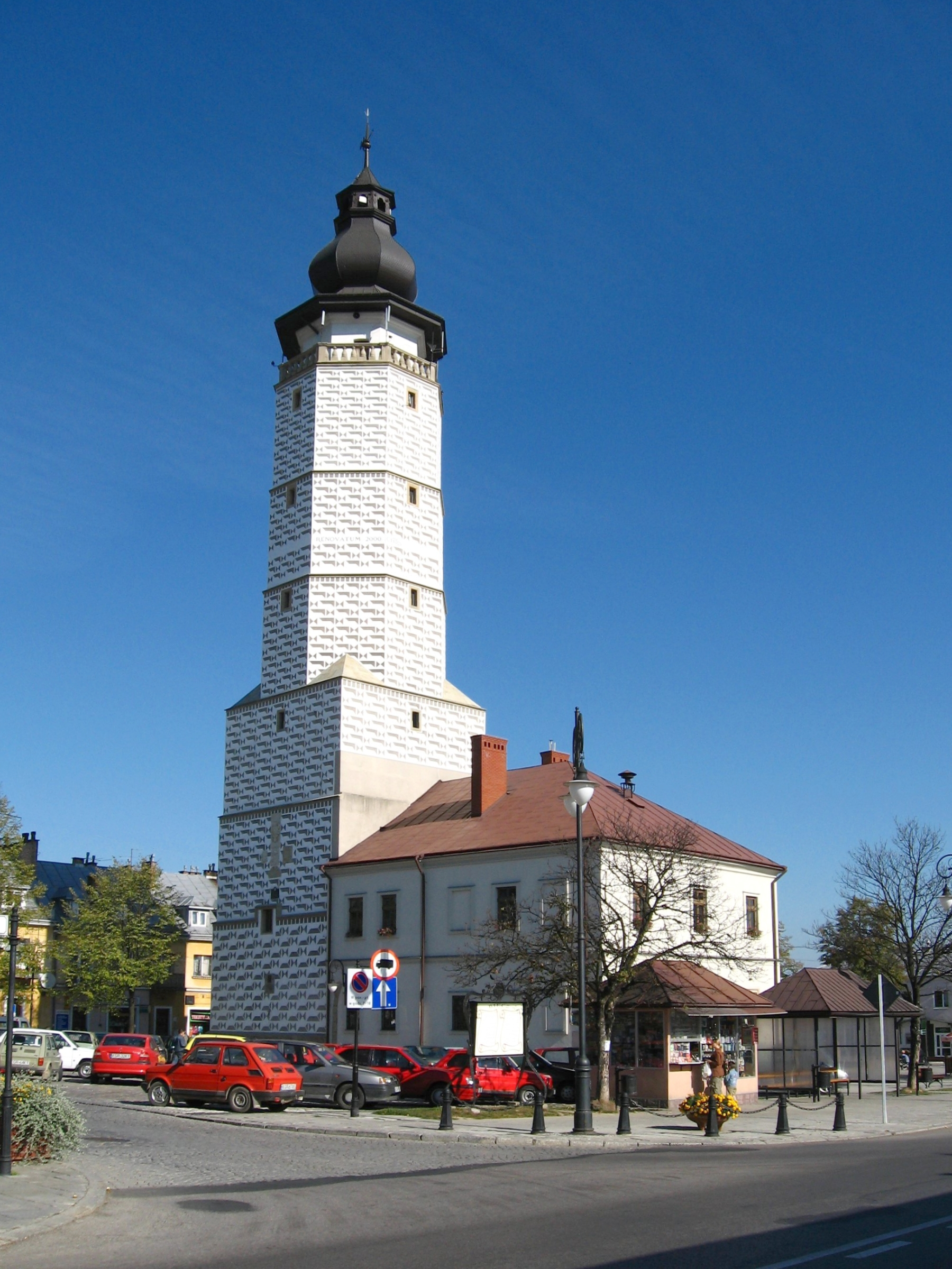 City hall. The bell tower was constructed in 1569, while the rest of the structure was built between 1569-1580. Town hall bell tower, after a campaign to repair and preserve the sgrafitto.